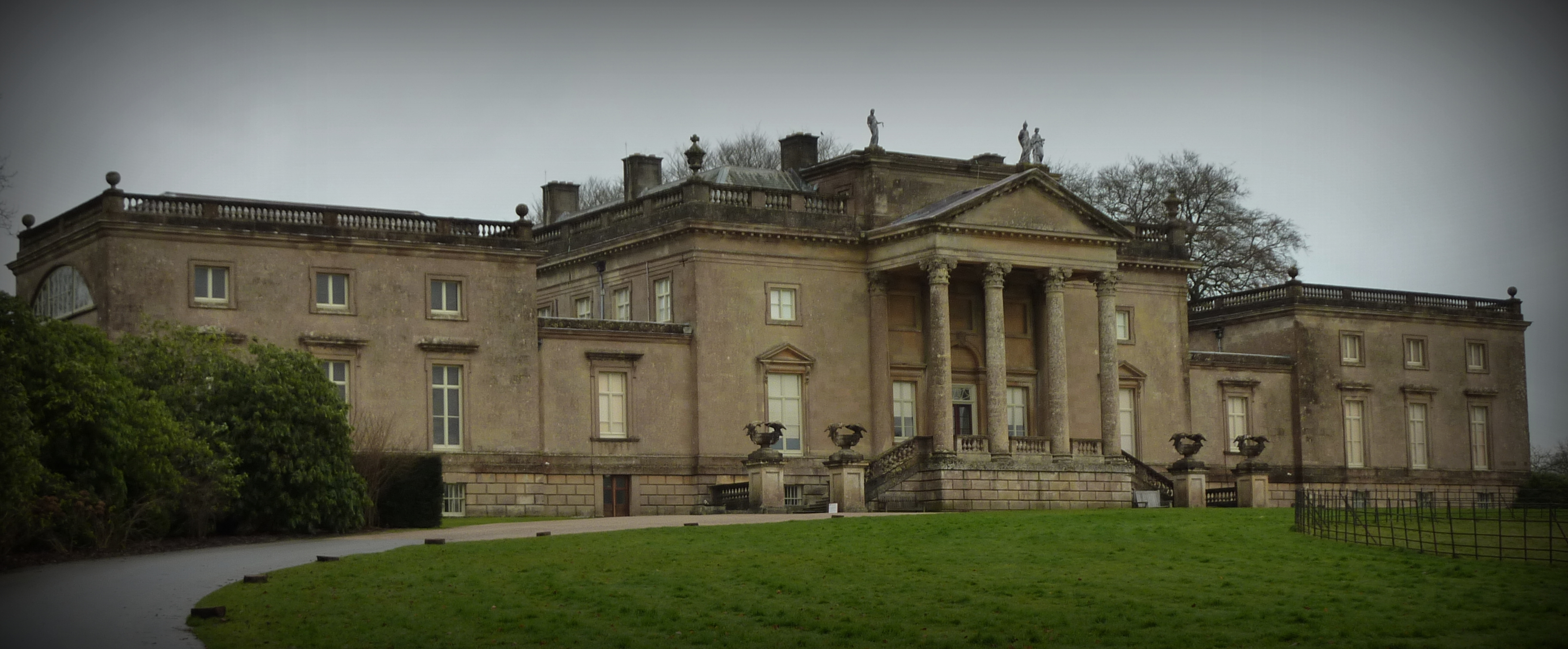 Stourhead House